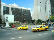 Taken by uploader on October 23rd 06